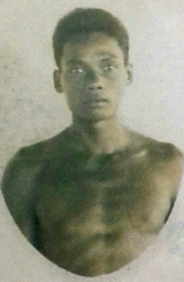 I Wayan Darna